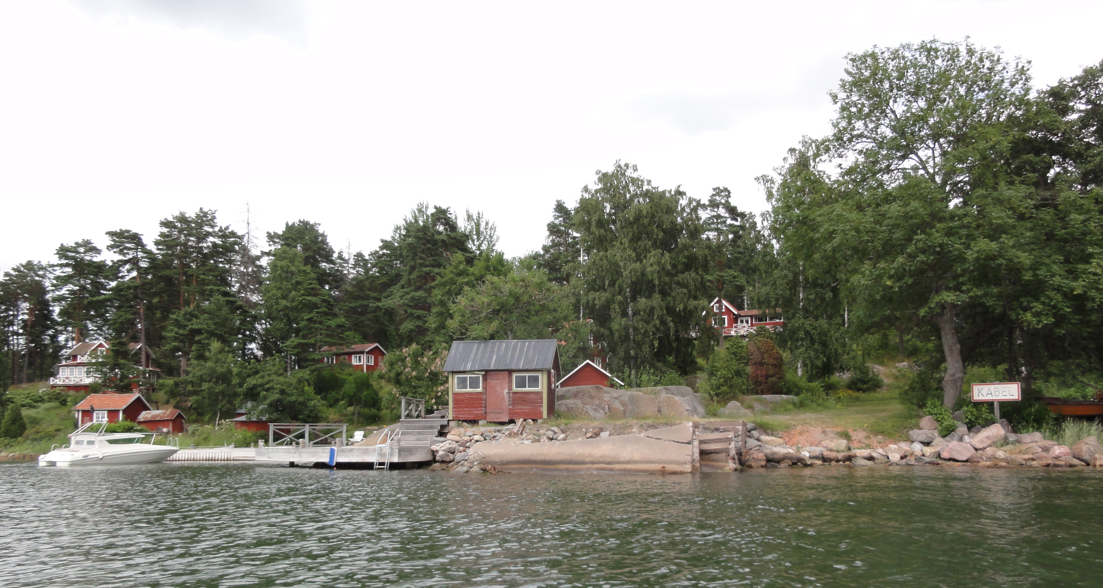 Löparö, island in Stckholm archipelago